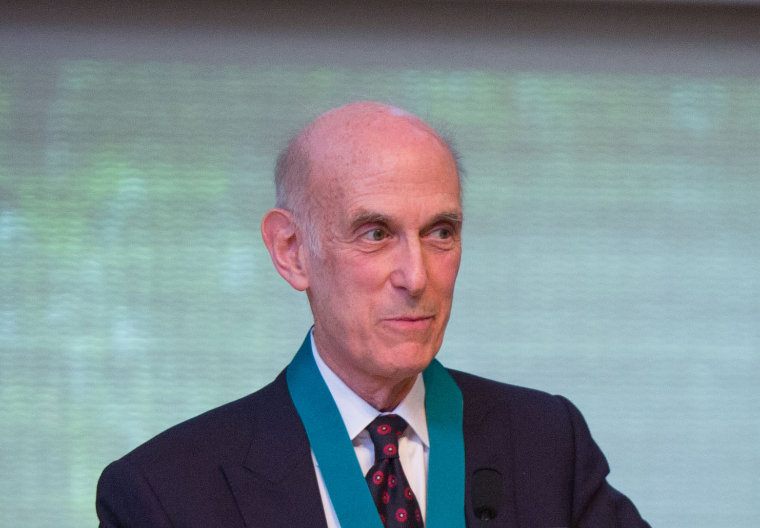 Photograph of Stephen J. Lippard, recipient of the American Institute of Chemists Gold Medal, awarded 10 May 2017, at the Chemical Heritage Foundation.